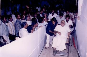 EMS at Kollam